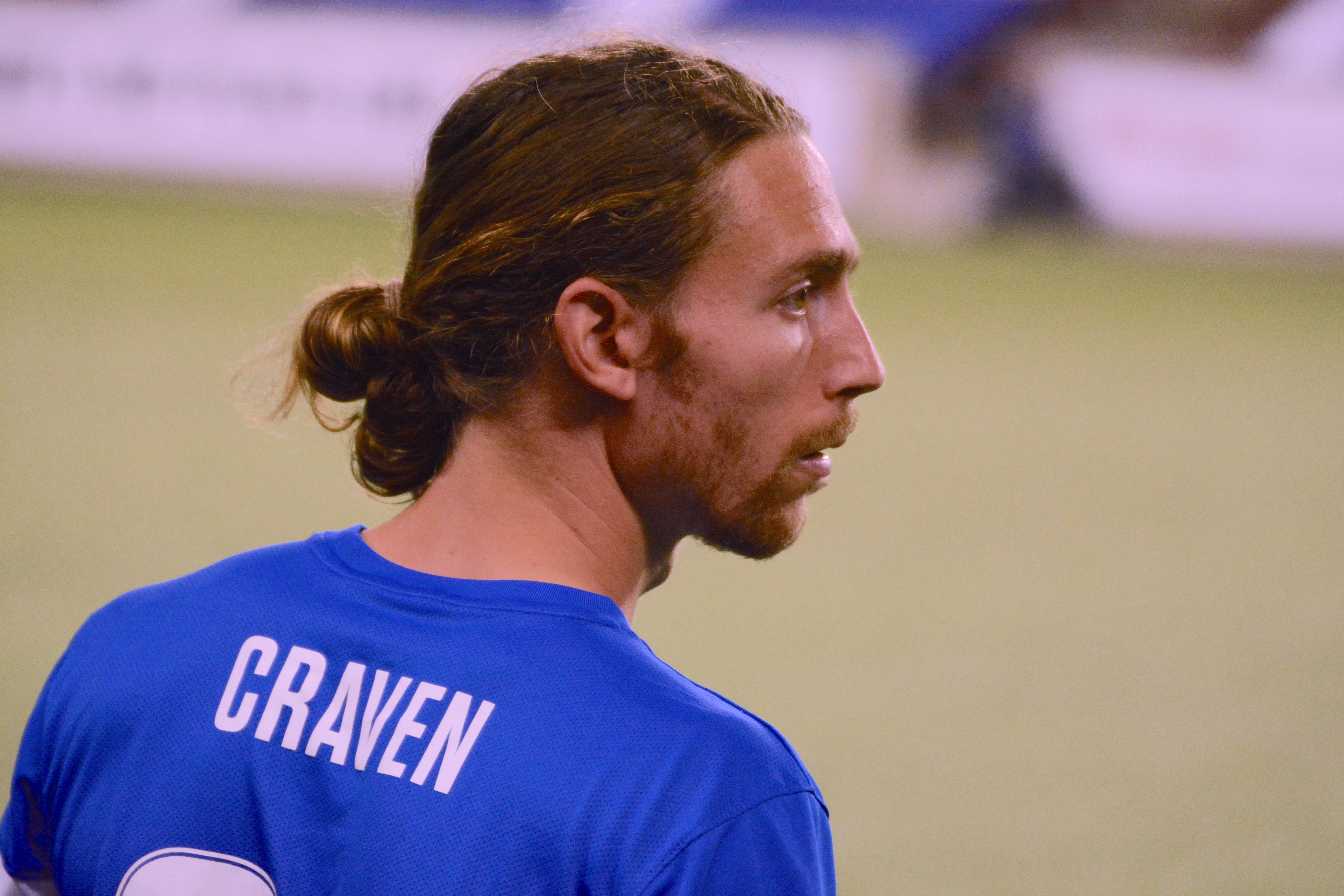 American soccer player Andy Craven, a forward for FC Cincinnati, preparing to be substituted in during a match against Tampa Bay Rowdies at Nippert Stadium in Cincinnati, USA on April 19, 2017.